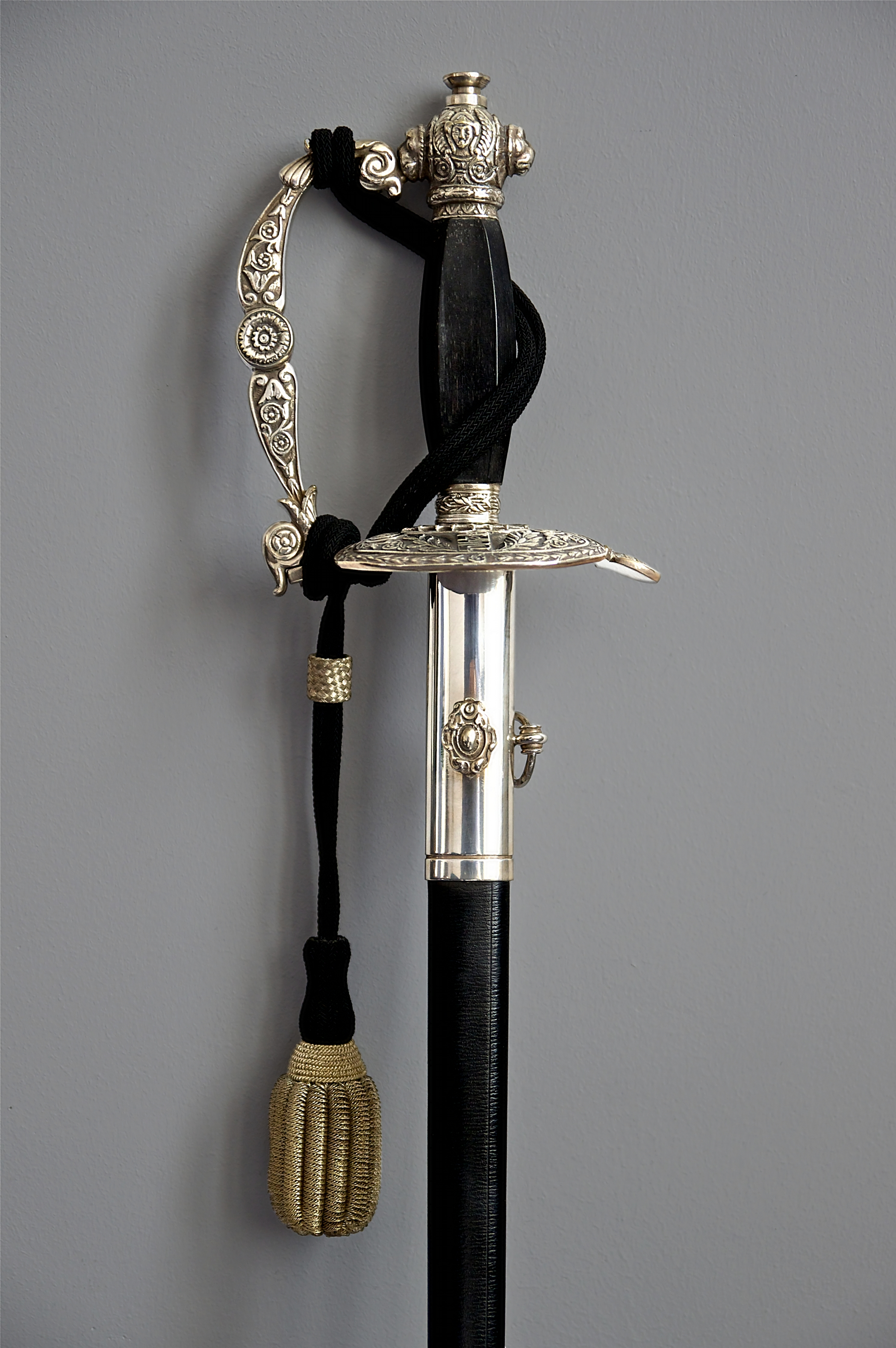 Ceremonial sword of french Commissaire de Police (Superintendent).- Detail